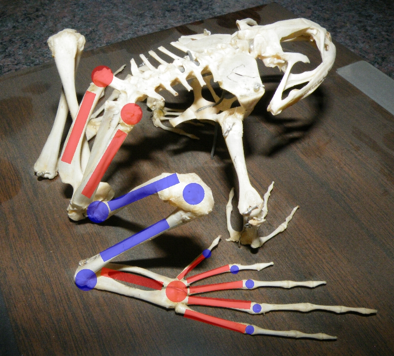 Image of sitting bullfrog skeleton, with joints and limbs color-coded